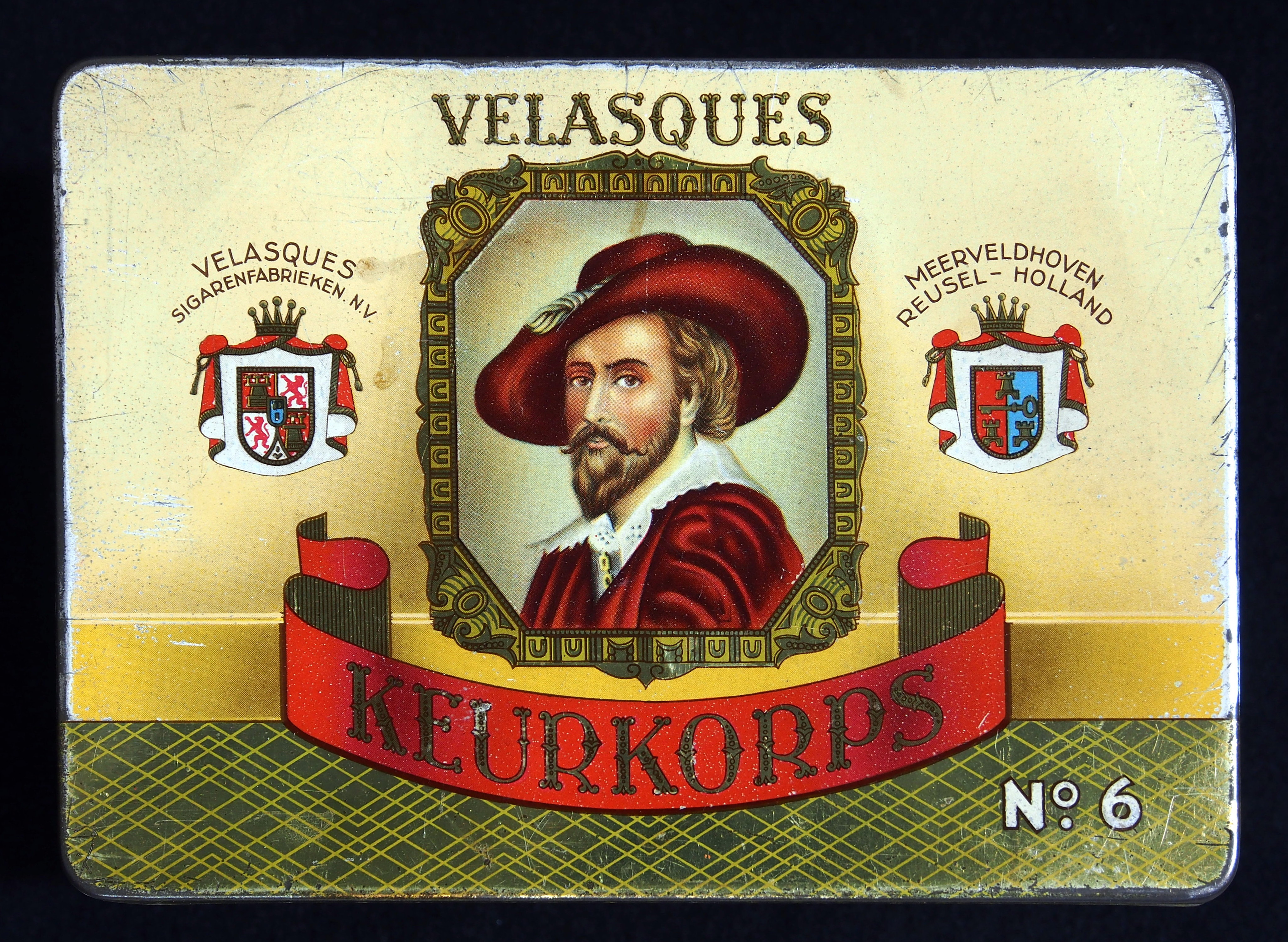 Very old packaging of a Dutch product that is not produced and/or not sold any more.